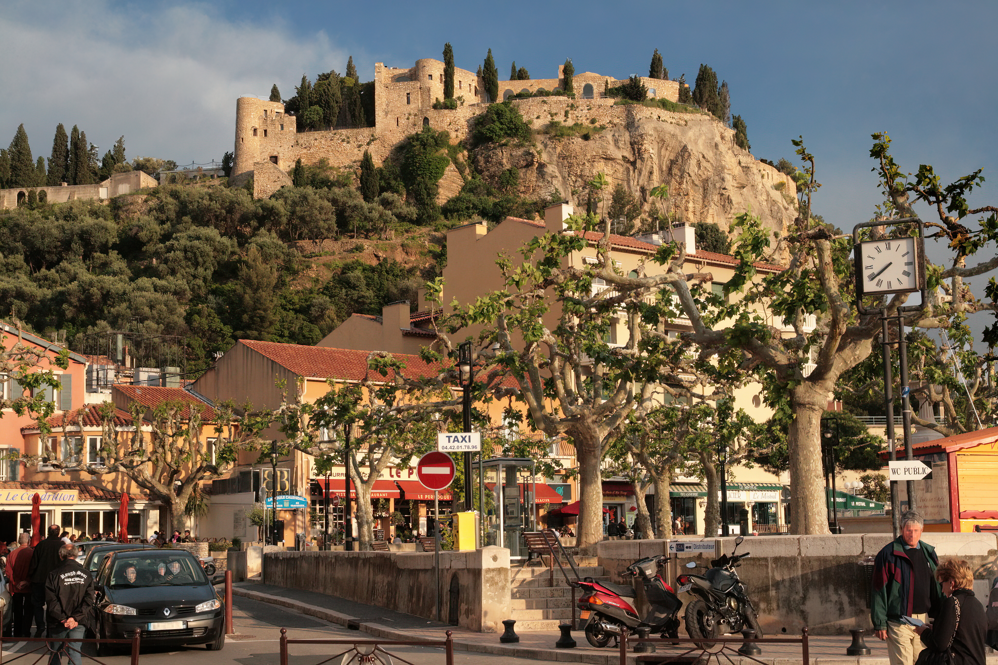 Place Georges Clemenceau and château in Cassis, France